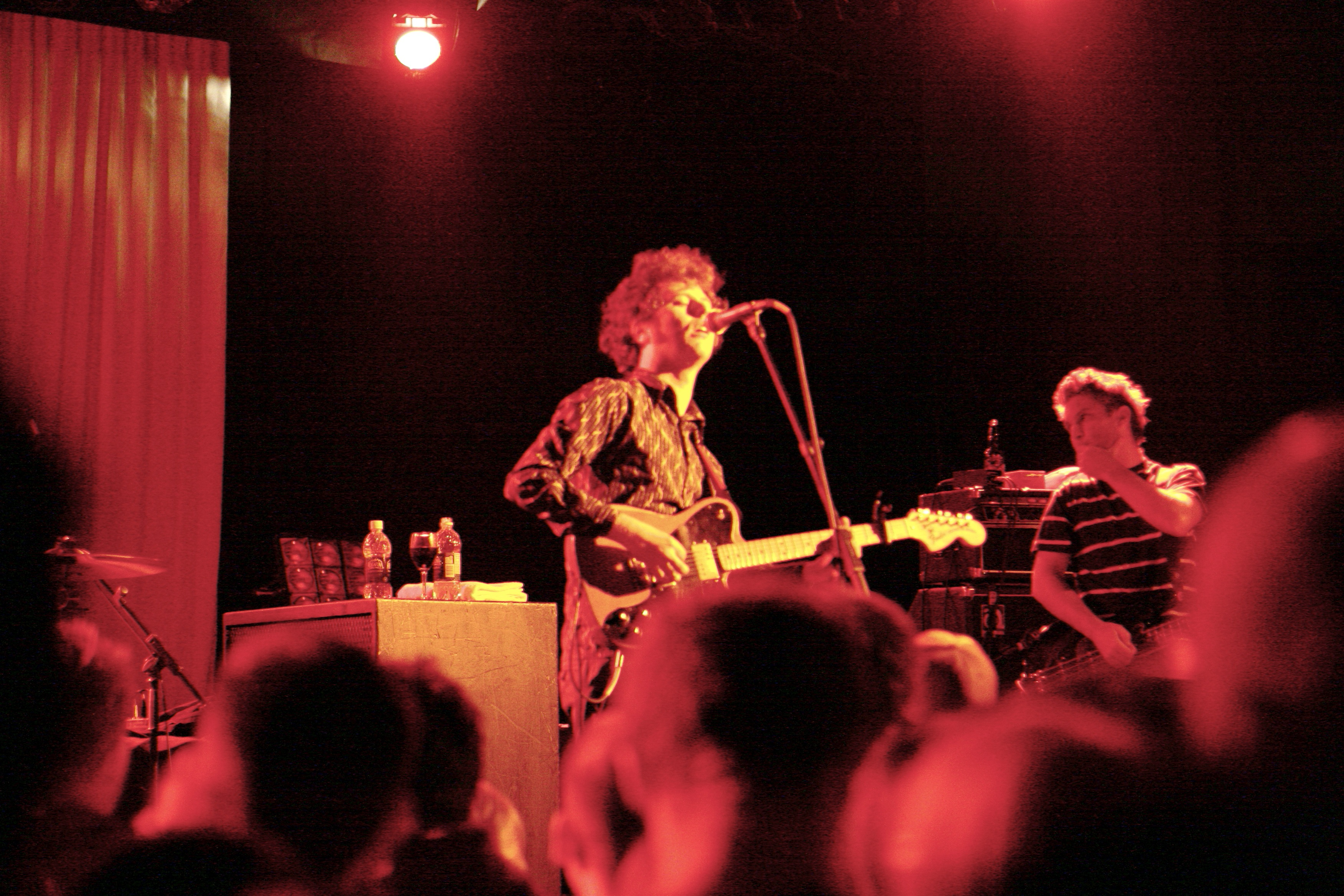 Youth Group in concert, opening for Death Cab in Vancouver